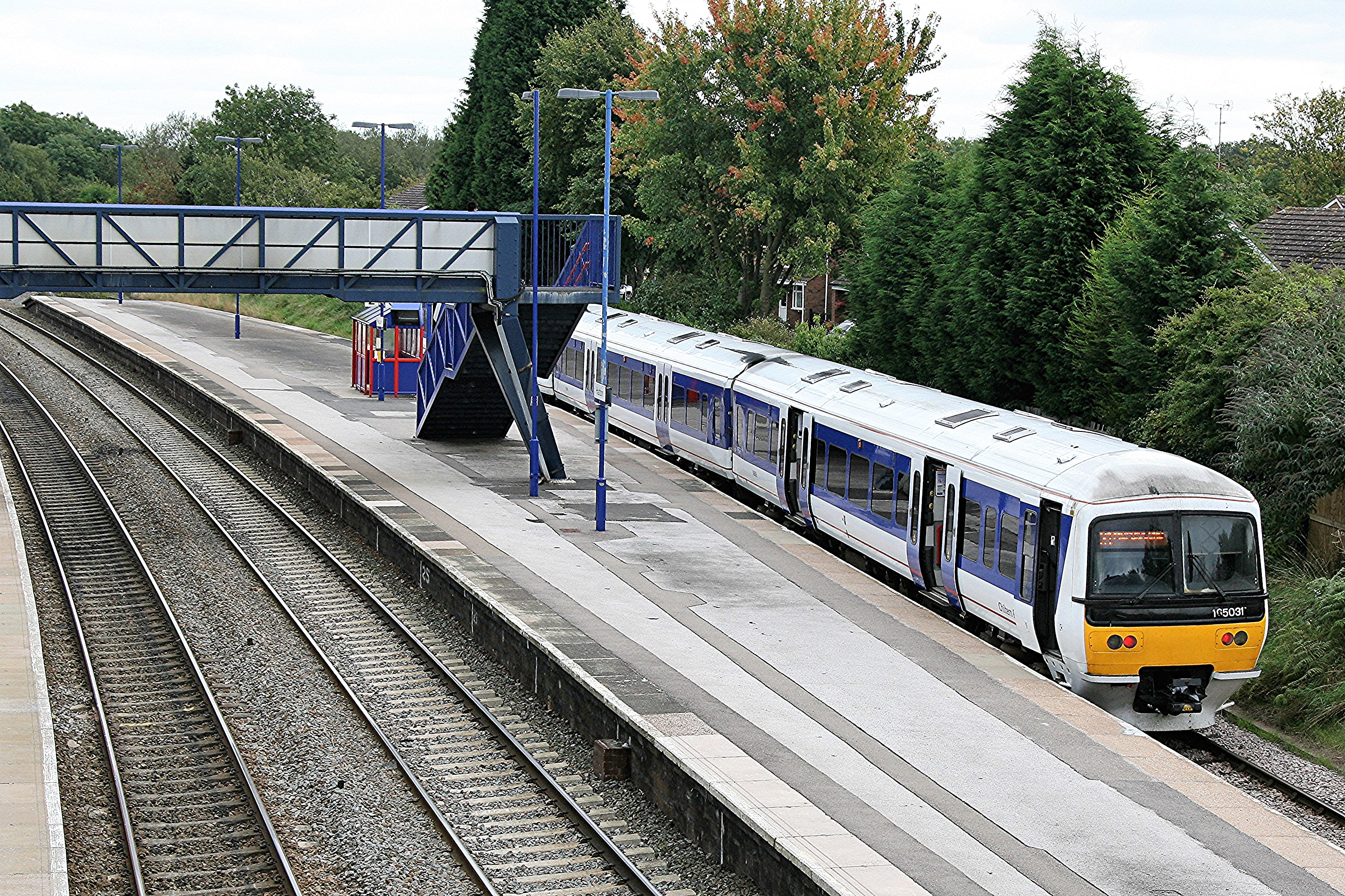 Class 165 165031 Hatton station 13-09-2009